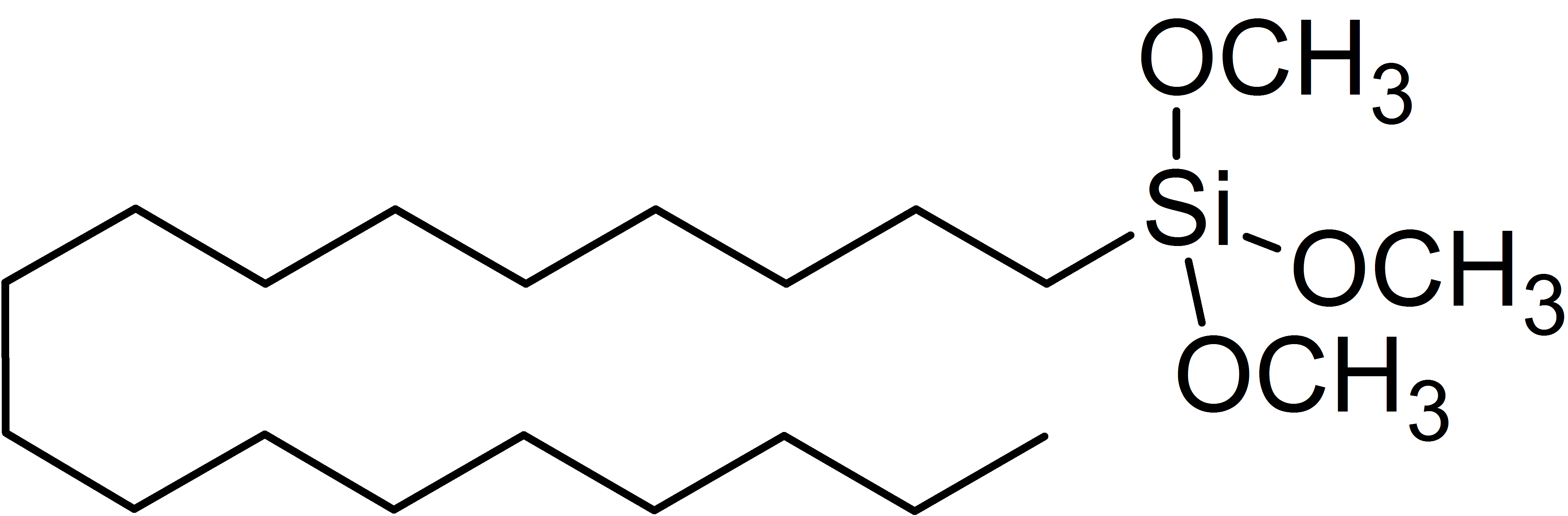 2D model of Octadecyltrimethoxysilane.